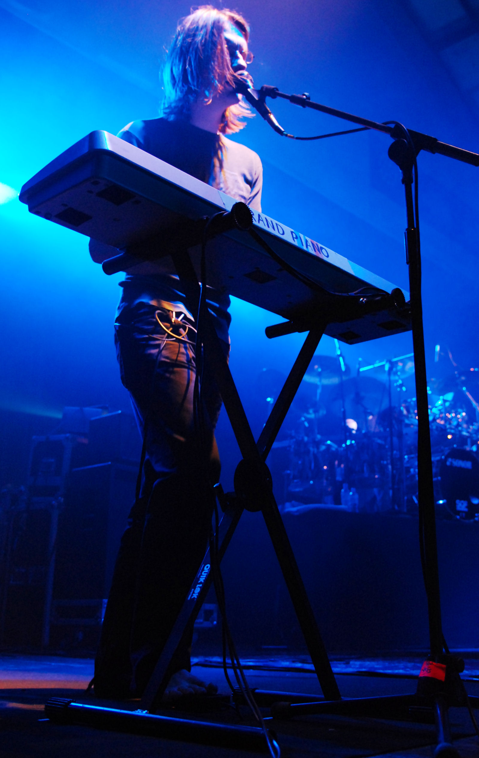 STEVEN_WILSON from Porcupine Tree during concert in TS Wisła in Kraków To zdjęcie powstało dzięki współpracy z Rock-Servis